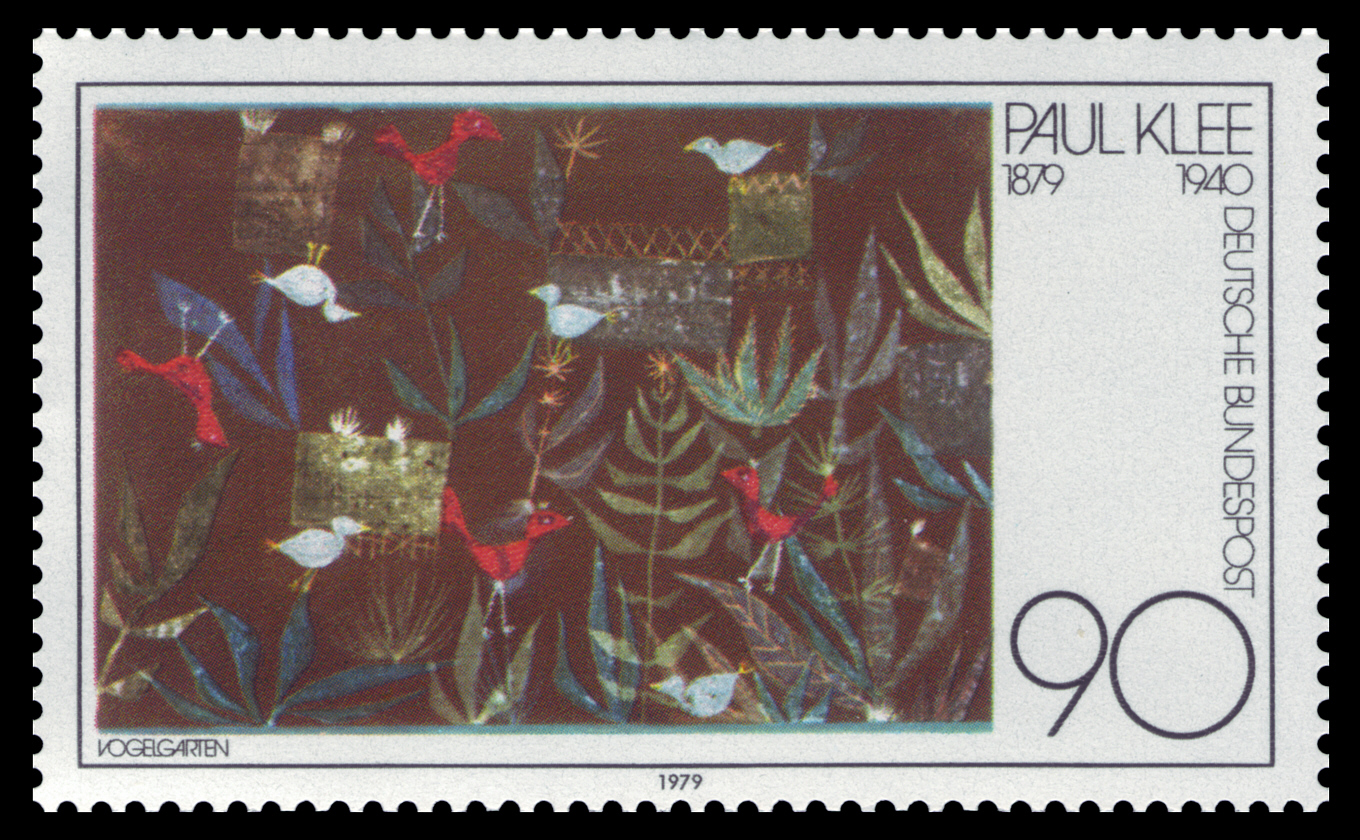 100th day of birth of Paul Klee (1879—1940 Graphic designer: Schall Ausgabepreis: 90 Pfennig First Day of Issue / Erstausgabetag: 14. November 1979 Michel-Katalog-Nr: 1029